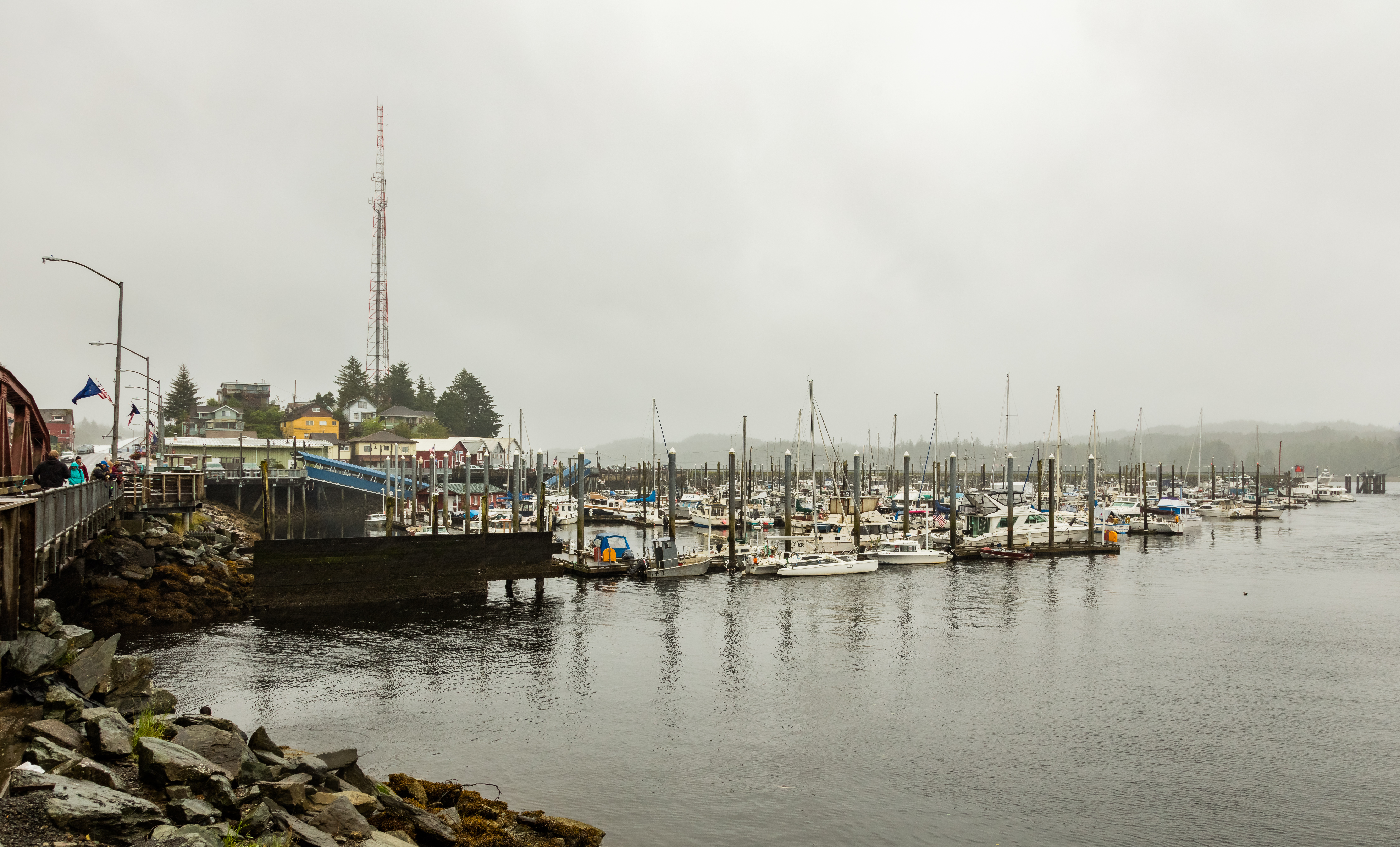 Port of Ketchikan, Alaska, United States